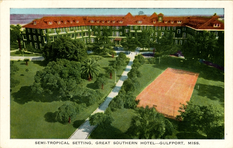 Great Southern Hotel, Gulfport, Mississippi, USA